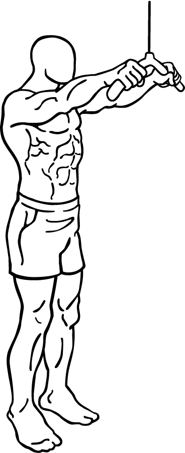 an exercise of upper back